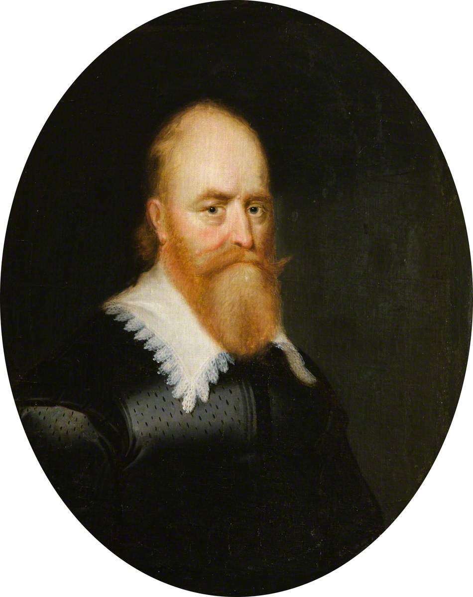 Andrew Fraser, 1st Lord Fraser of Castle Fraser [1574-1636], half-length, in armour with a lace collar.